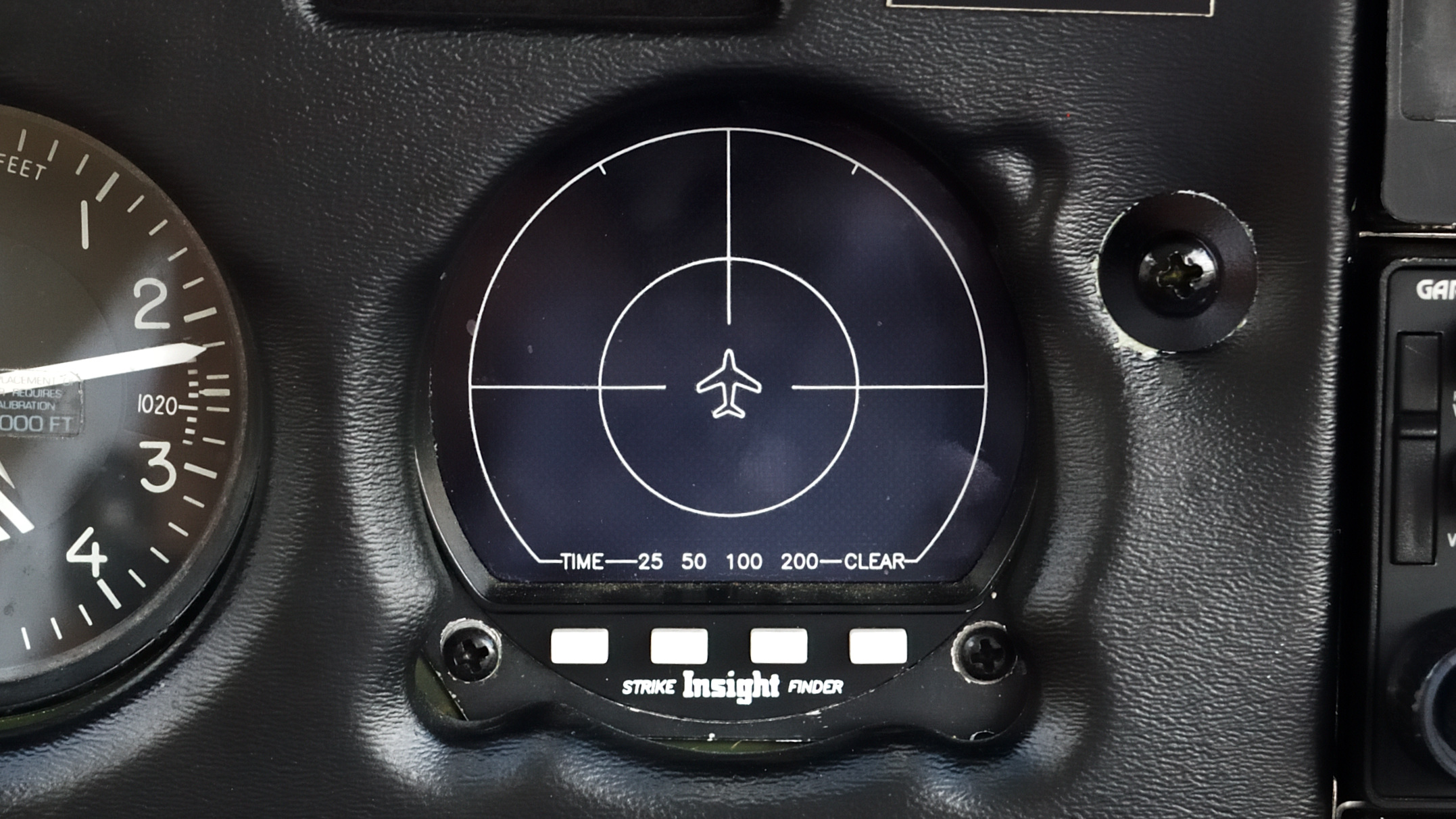 Stormscope Strike Finder in a Piper PA-28R Arrow